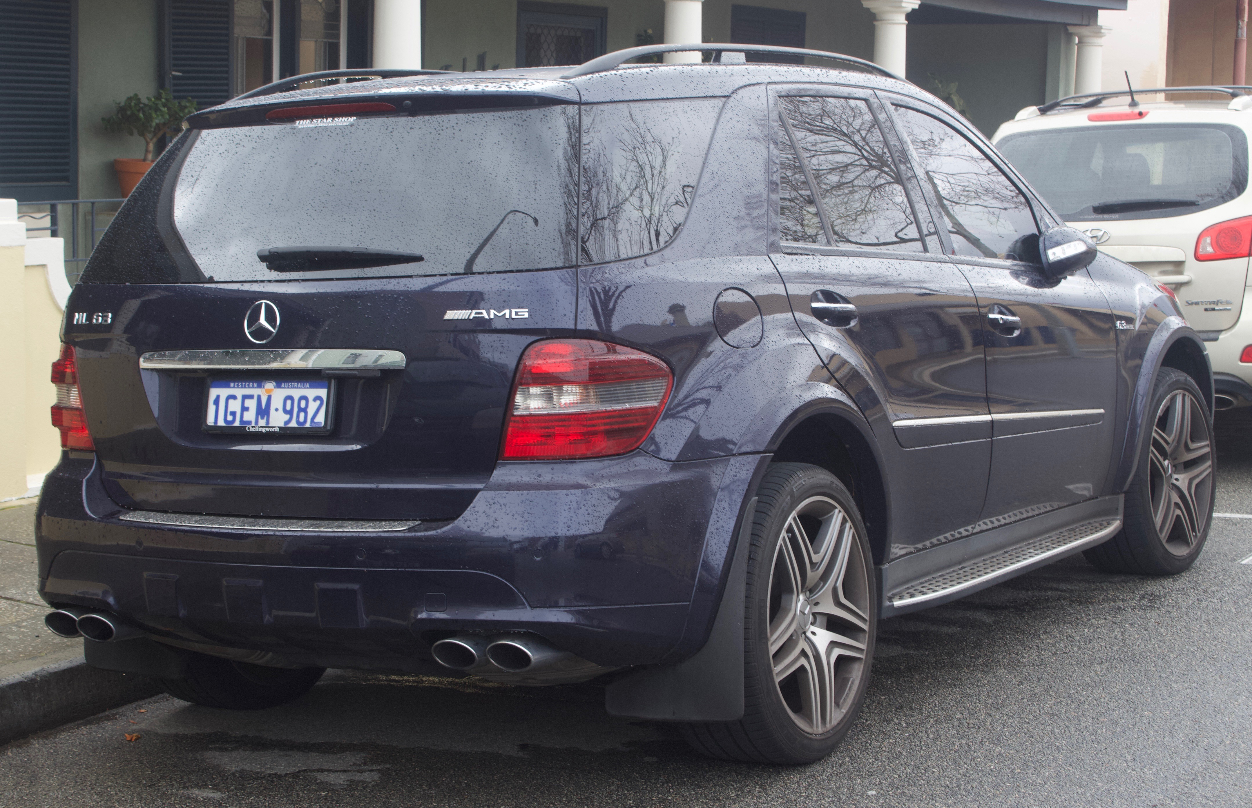 2006-2008 Mercedes-Benz ML 63 AMG (W 164) wagon. Photographed in Fremantle, Western Australia, Australia.